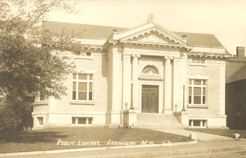 Public Library, Franklin, New Hampshire